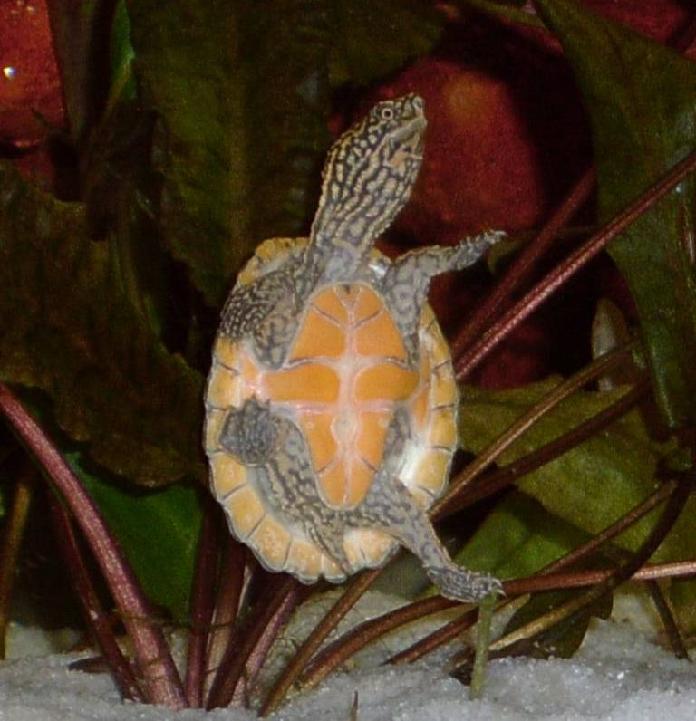 Sternotherus minor peltifer hatchling ventral